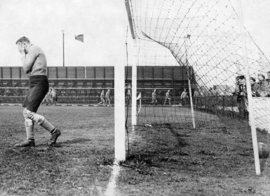 Keeper Gejus van der Meul ashamed after letting an easy bal pass through. During a special match on crownprincess Juliana’s birthday on april 30, 1940. Heemstede, The Netherlands.